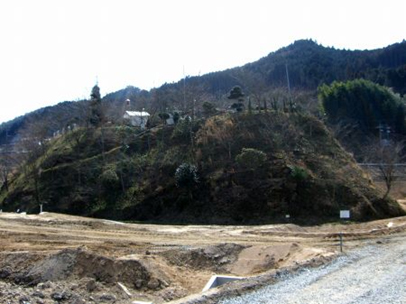 Photo of the remains of Matsuoka Castle